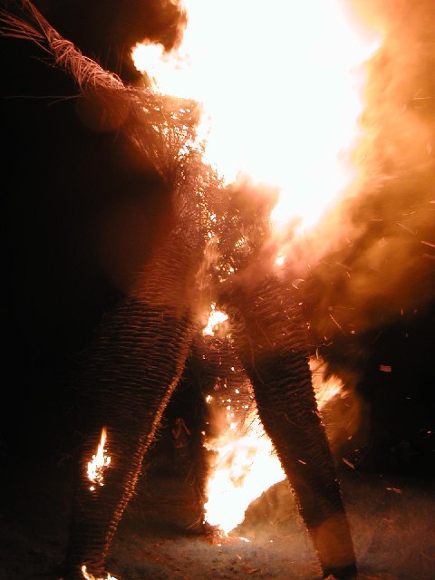 The Wicker Man burns. The Wicker Man festival is an annual summer event on this hillside above Dundrennan. The burning of the wicker man is the climactic event of the festival.